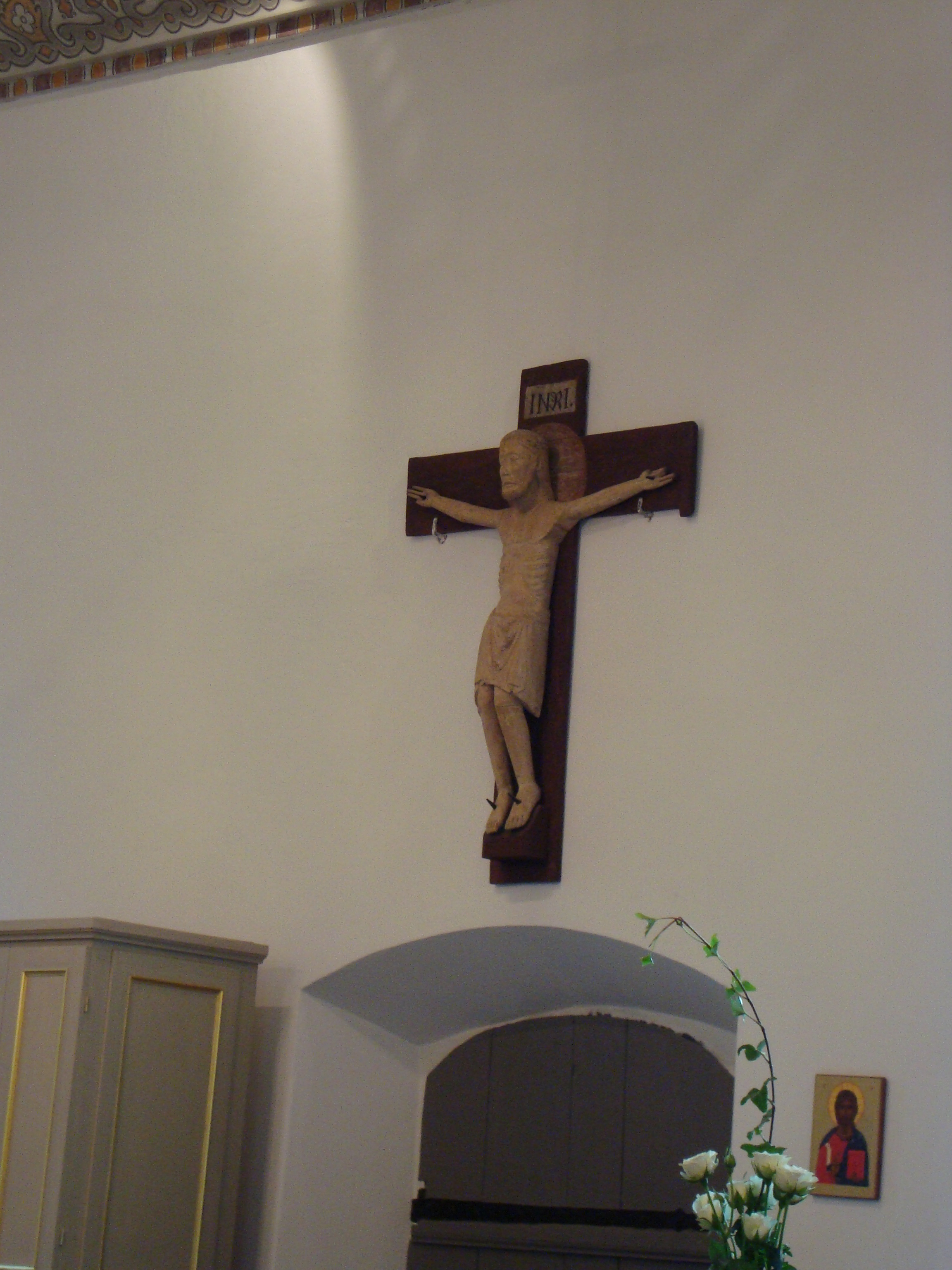 Triumph crucifix, Landeryds kyrka, Diocese of Linköping, Sweden